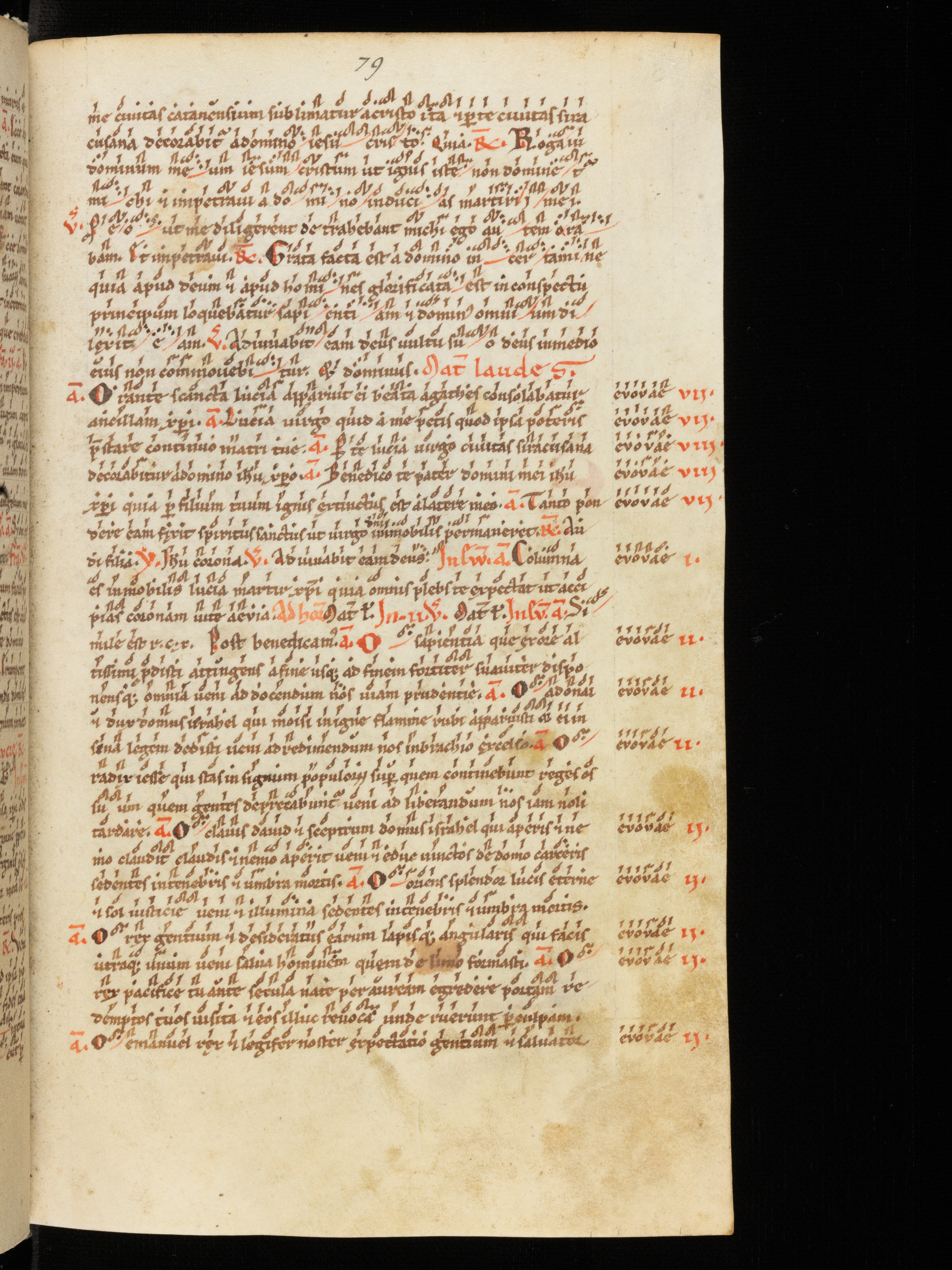 Fol. 79r Antiphonae Majores (Great ‘O’ Antiphons, Grandes O) Breviarium antiquissimum (Major sections: Lectionary, Litany, Neumed Antiphoner, Partial Hymnary, Calendar of Saints, Capitulary, Collectar) Origine: Rhineland Benedictine Monastery, possibly Disibodenberg (Omlin), more probaby Sponheim (Choate) Période: First third of the thirteenth century Ancienne Cote: 5/39 (Gottwald)